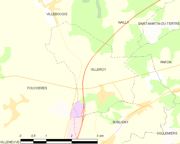 Map of French municipality Villeroy